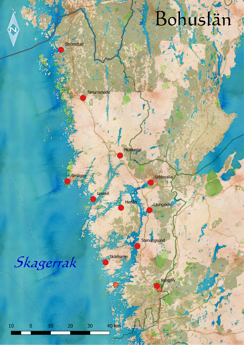 A simplified map for the Swedish region Bohuslän intended to be used by children in elementary school. This map may be incomplete, and may contain errors. Don't rely solely on it for navigation.